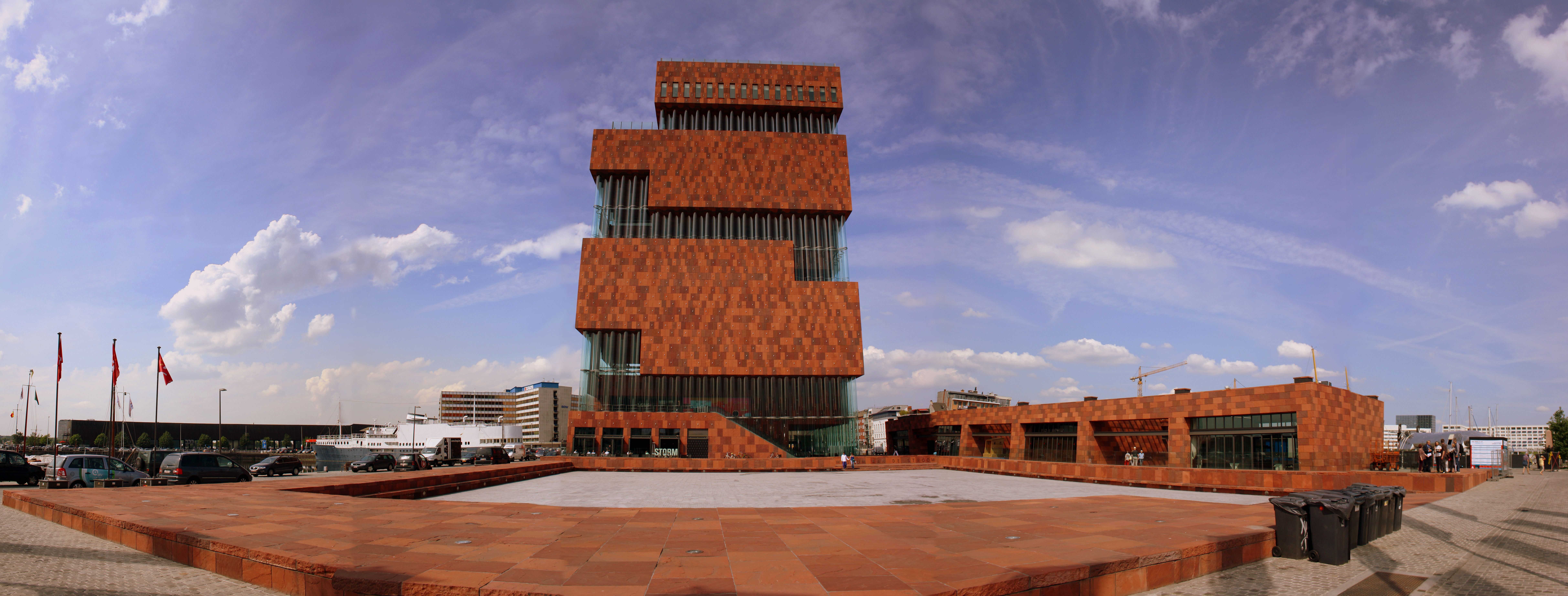 Panorama of the Museum Aan de Stroom (MAS), Antwerp